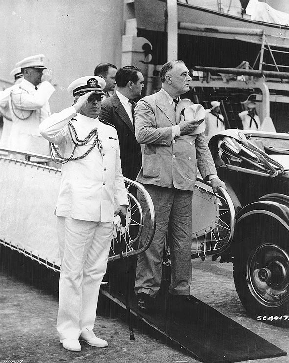 President Franklin D. Roosevelt and his Naval Aide, Captain Daniel J. Callaghan, taking the salute of a composite Battalion of the 14th Infantry at Gatun Locks, Panama Canal Zone, as they were disembarking from USS Tuscaloosa (CA-37) on 18 February 1940.